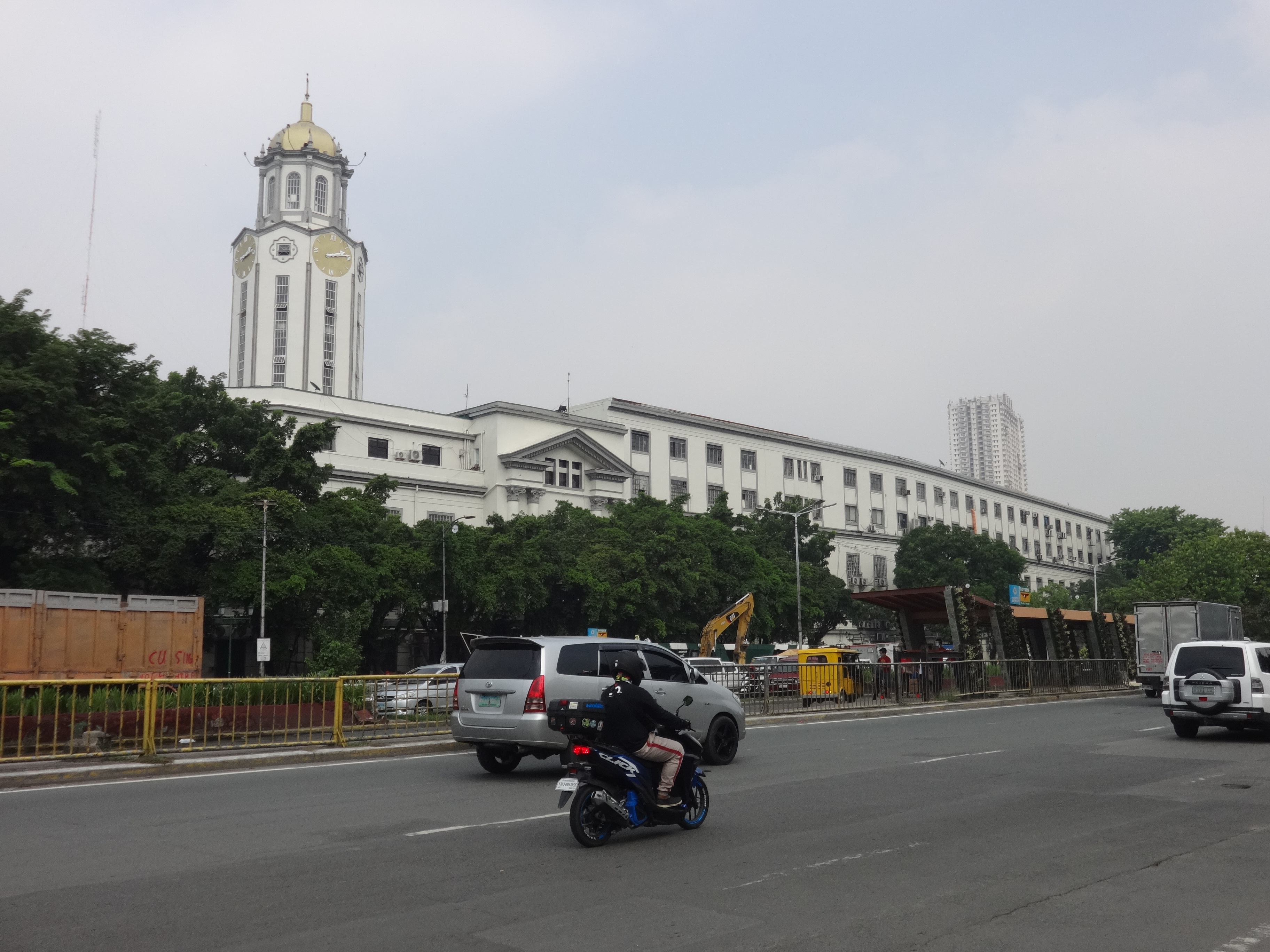 View of the newly-repainted Manila City Hall